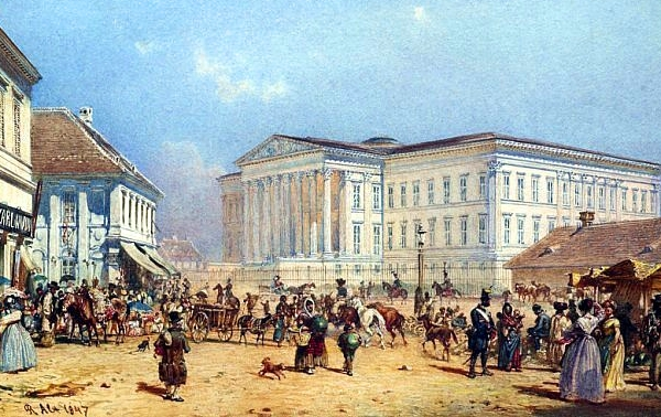 The Hungarian National Museum in Budapest during the Reform Age in Hungary